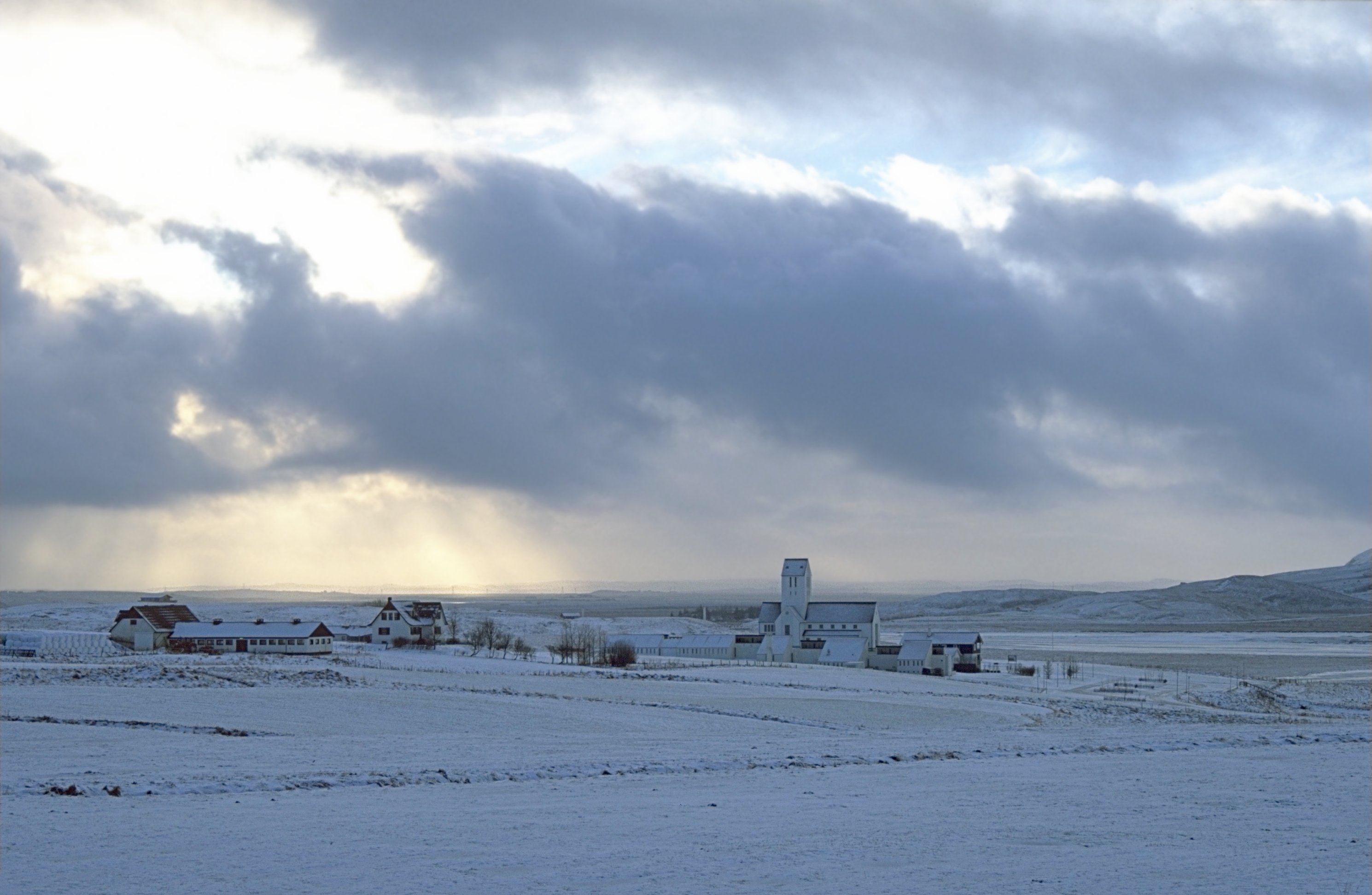 Skálholt, Iceland. Photo was taken using the following technique: Film: Fuji Velvia Lens: 4/35-70 Filter: Body: Minolta Dynax 7 Support: Manfrotto 190B Image with Information in English Bild mit Informationen auf Deutsch